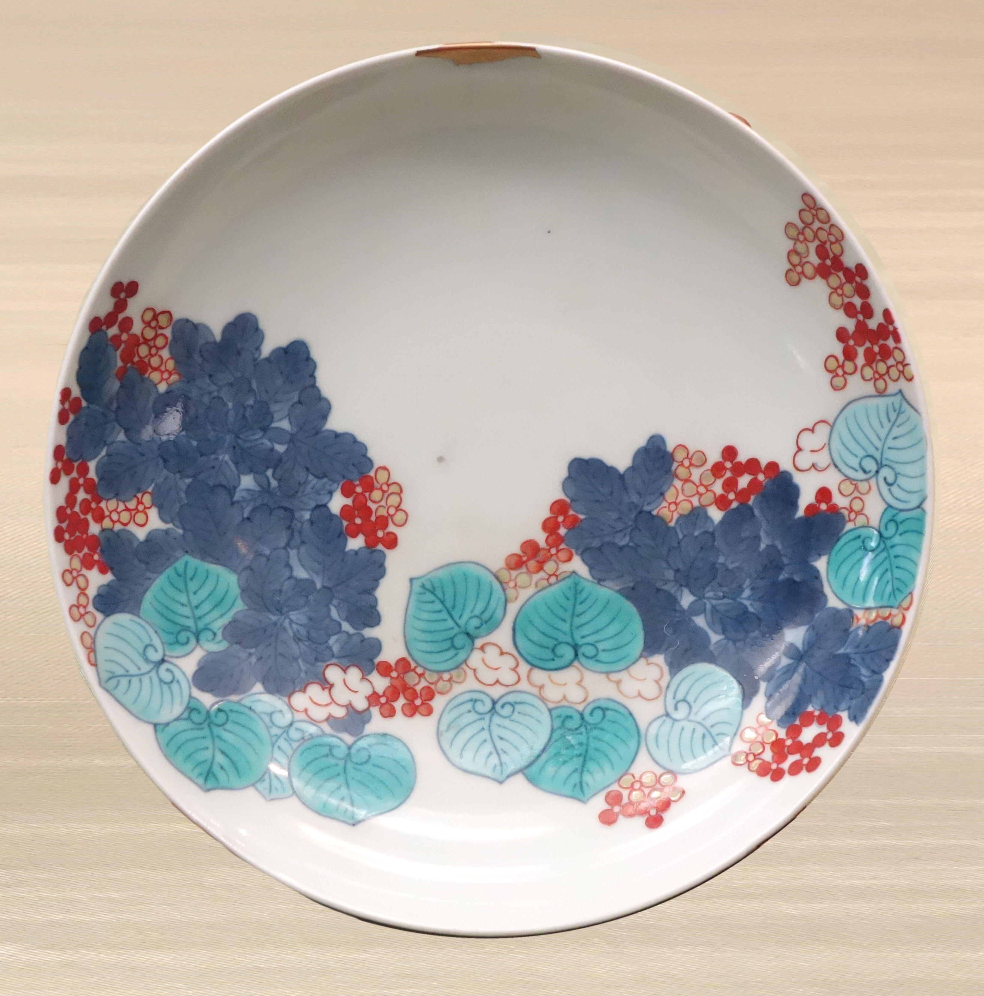 Exhibit in the Tokyo National Museum, Tokyo, Japan. This artwork is old enough so that it is in the public domain.